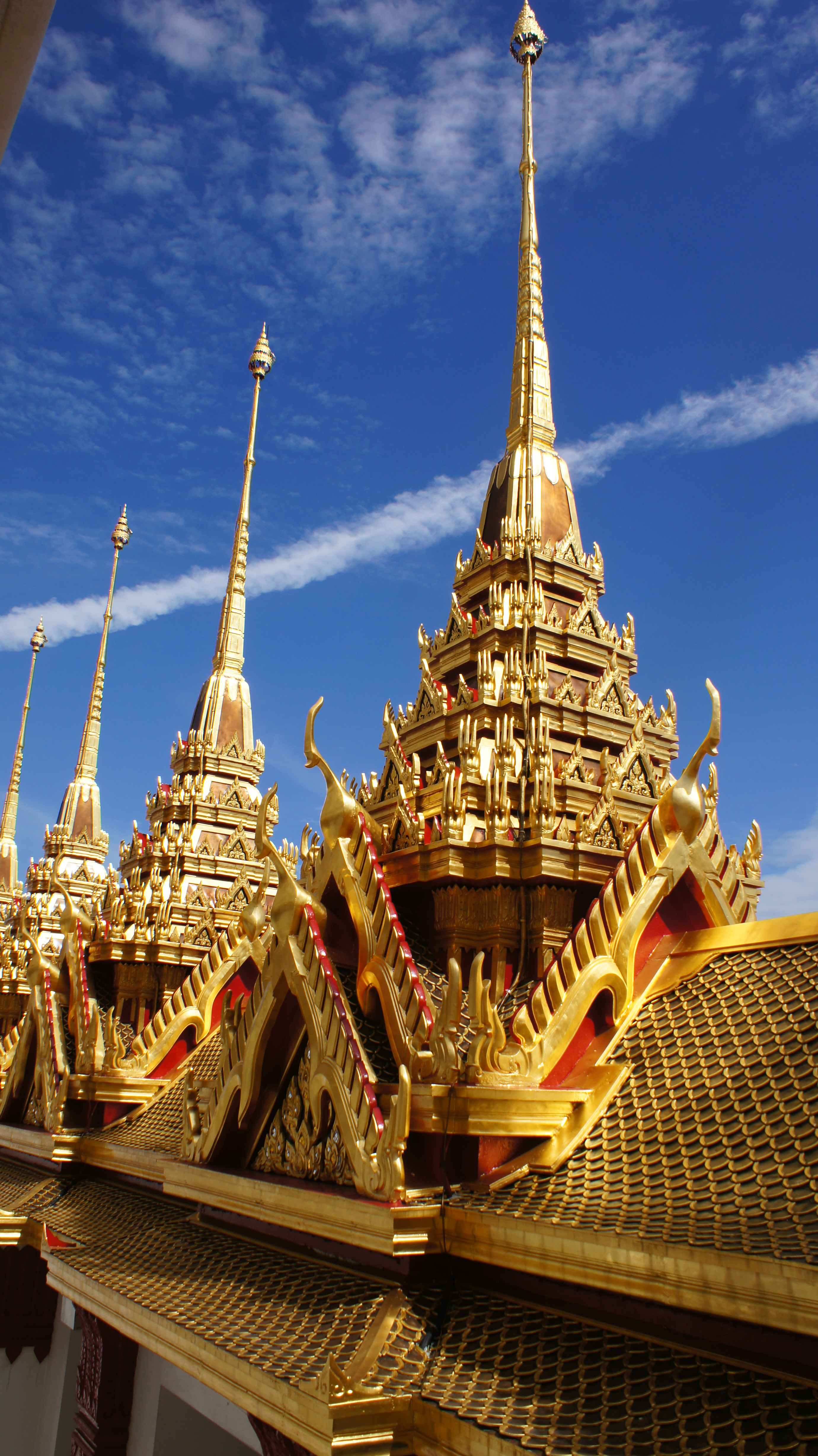 Wat Ratchanatdaram in 2017